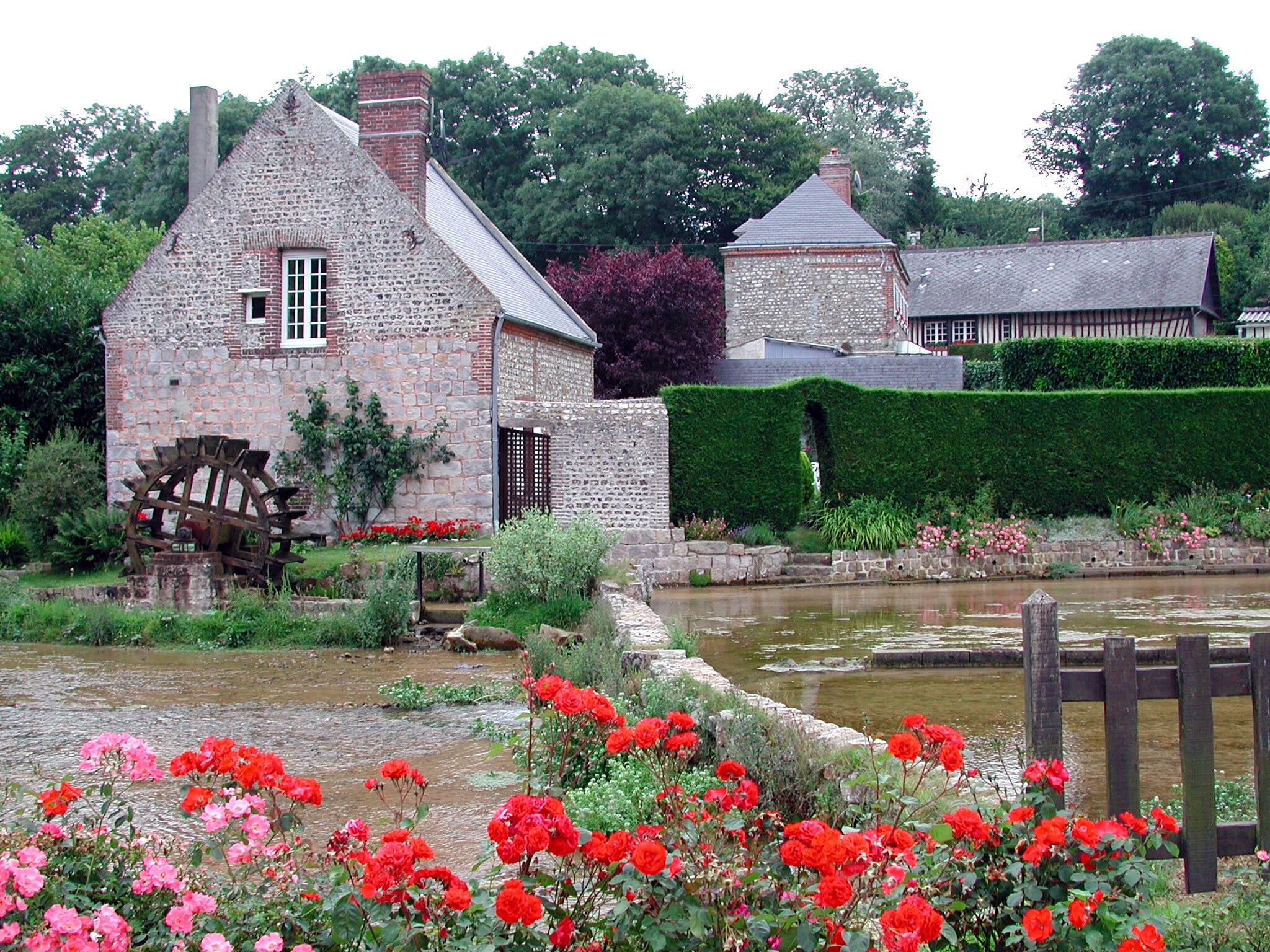 Personal photograph of the Cressonnières in Veules les roses.